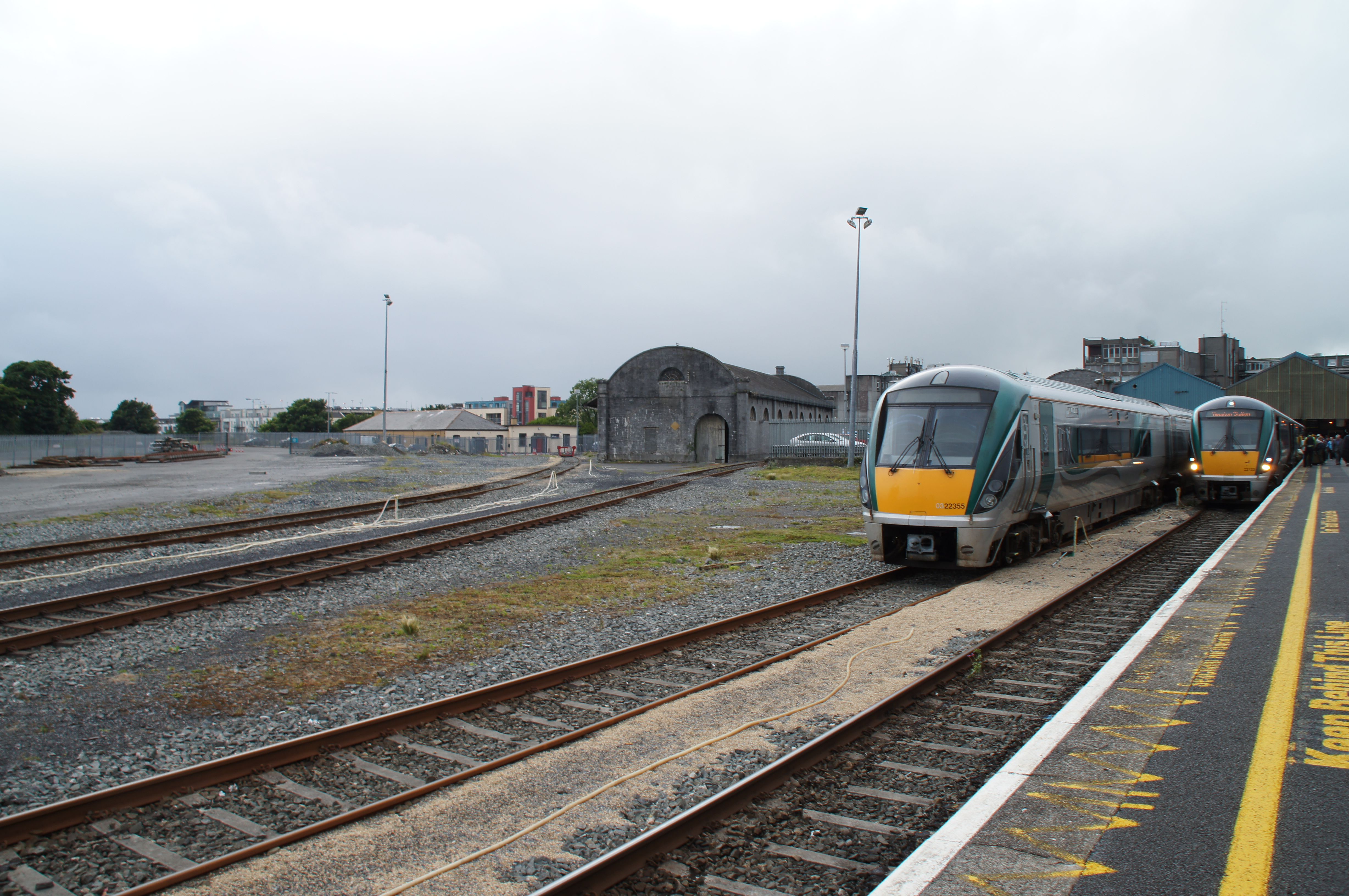 DMU 3-car set 22055 and 5-car set 22033 of the Irish railway company Iárnrod Éirann in Galway railway station.